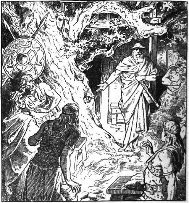 "Sigmunds Schwert" (1889) by Johannes Gehrts. A mysterious, Odin-like figure presents the sword he has stuck into the tree Barnstokk.